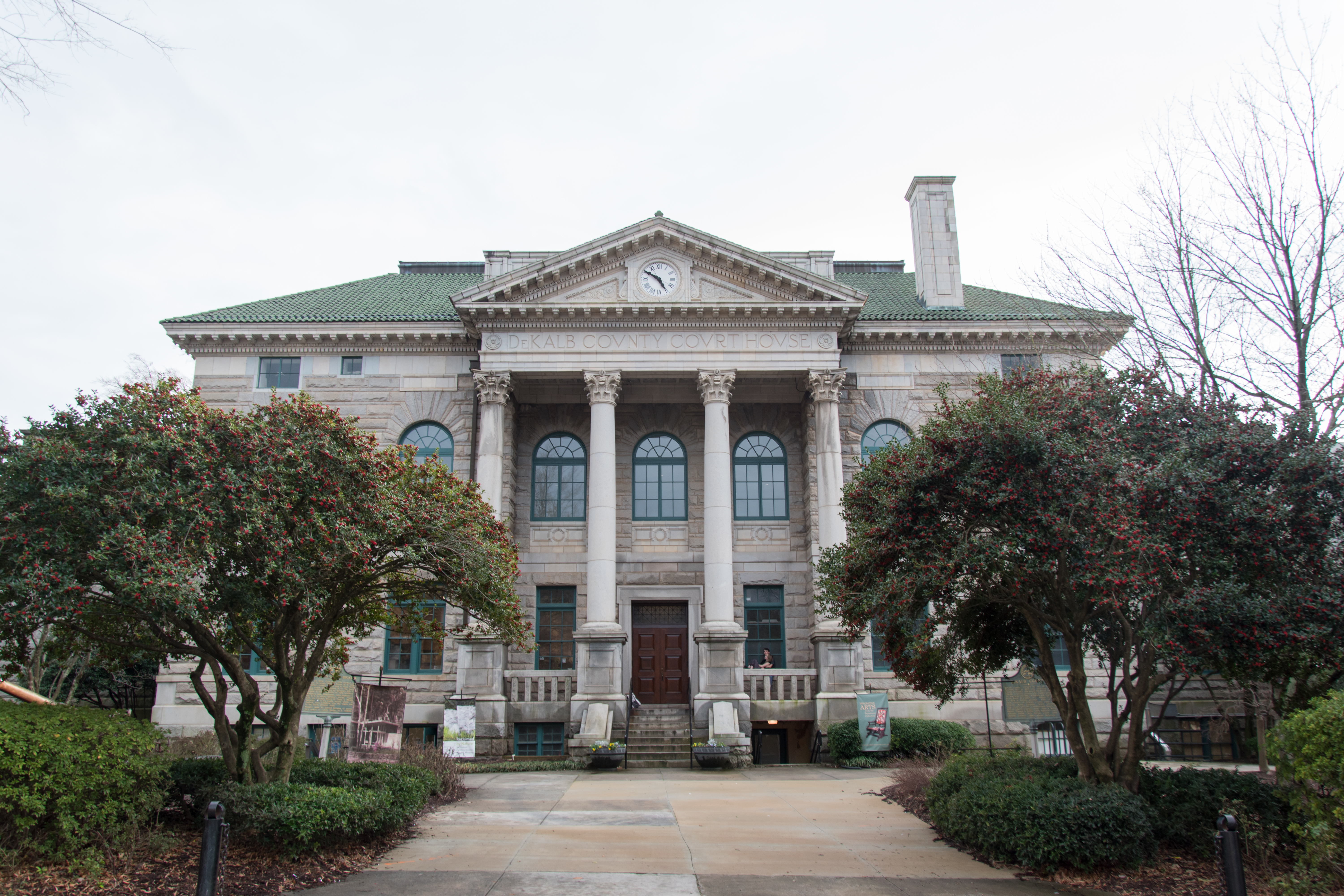 Former courthouse in Decatur, Georgia, where I almost was mugged.